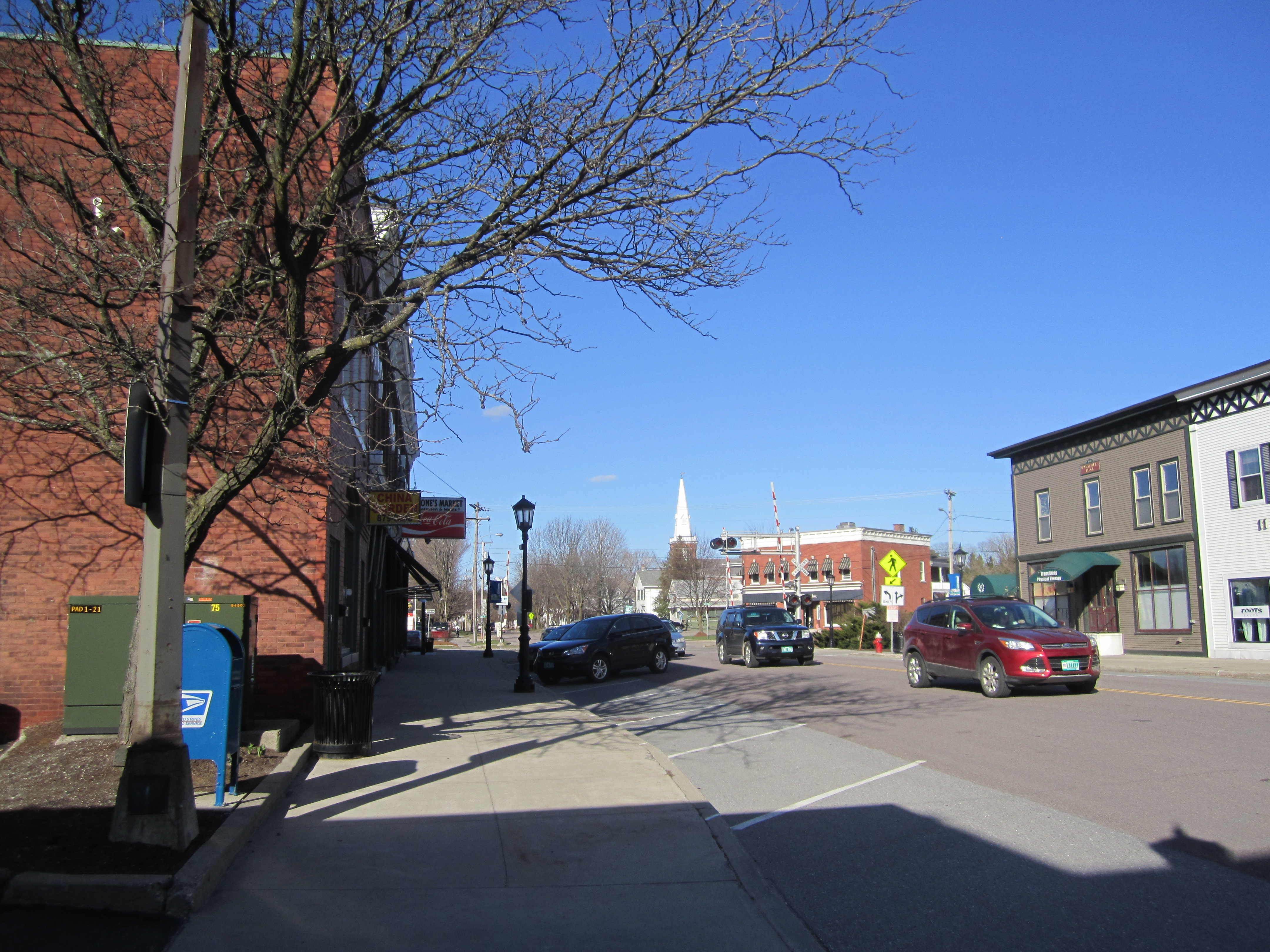 Main St. near Five Corners in Essex Jct VT